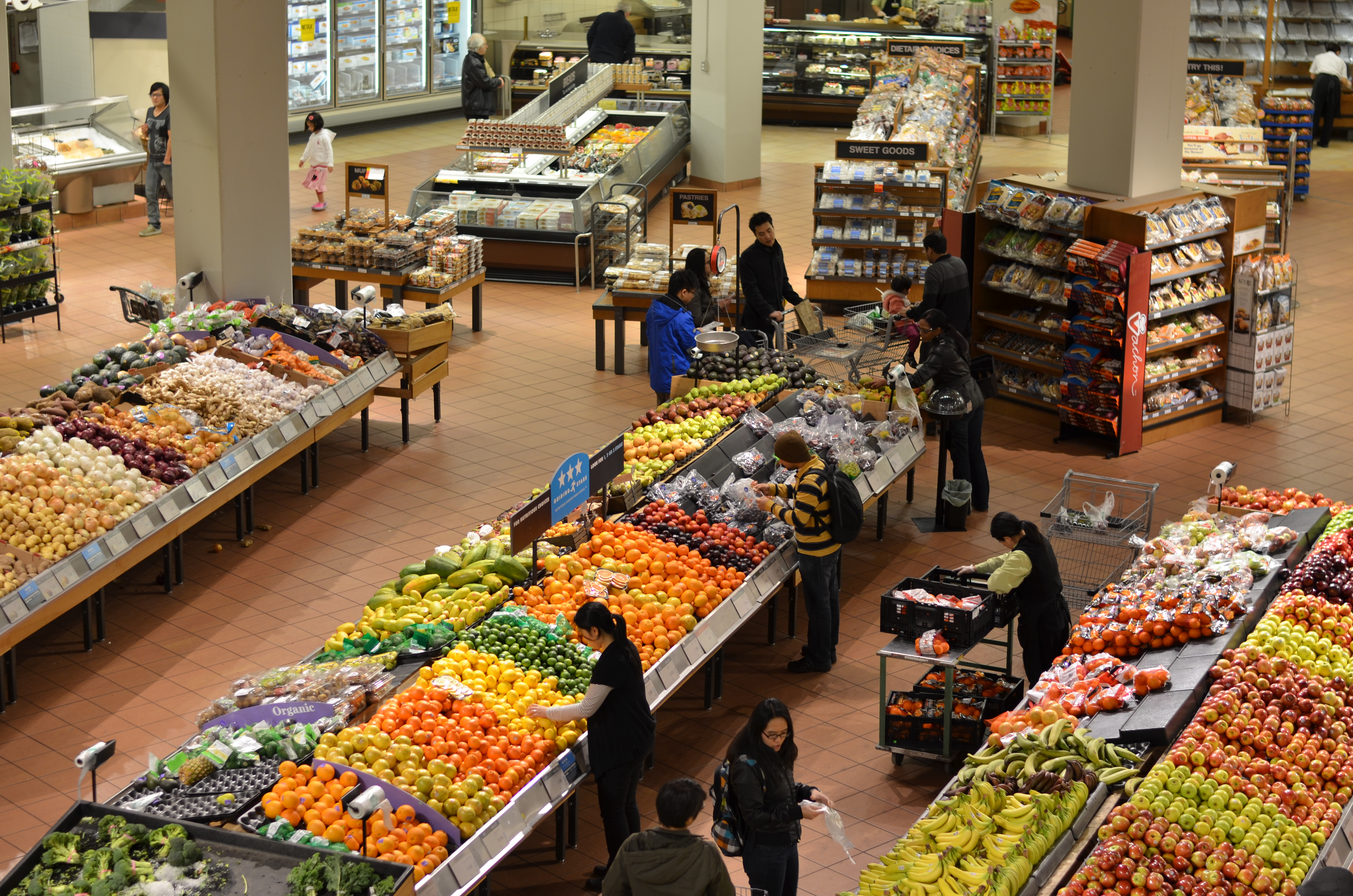 Loblaws - Yonge Street (Empress Walk)